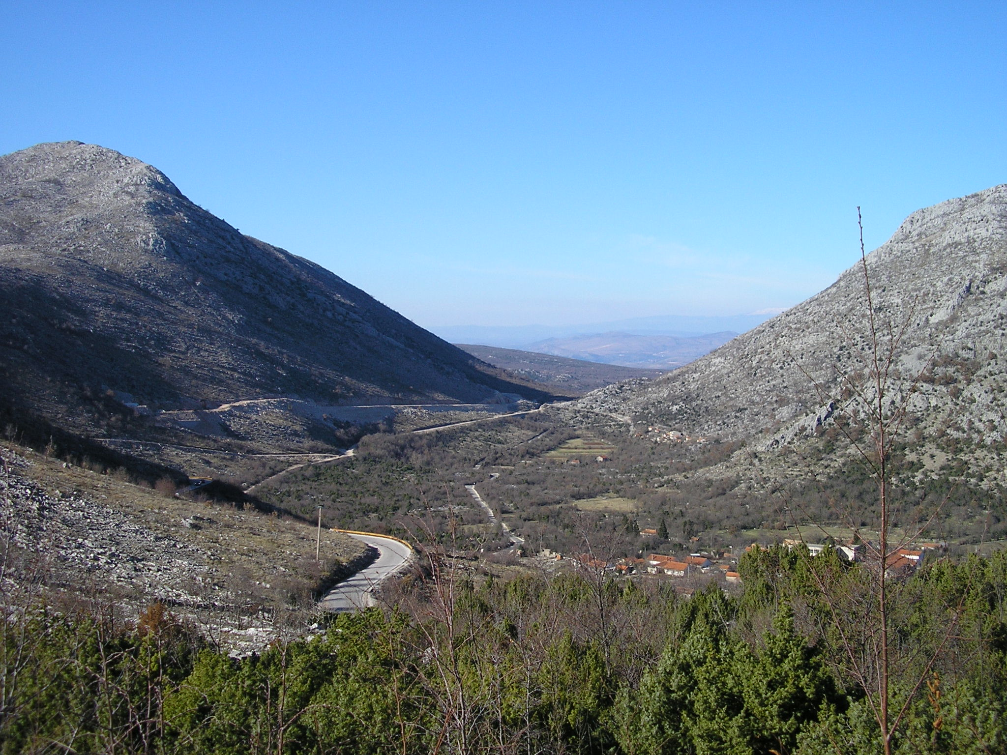 Hutovo panorama from Hutovo fortress